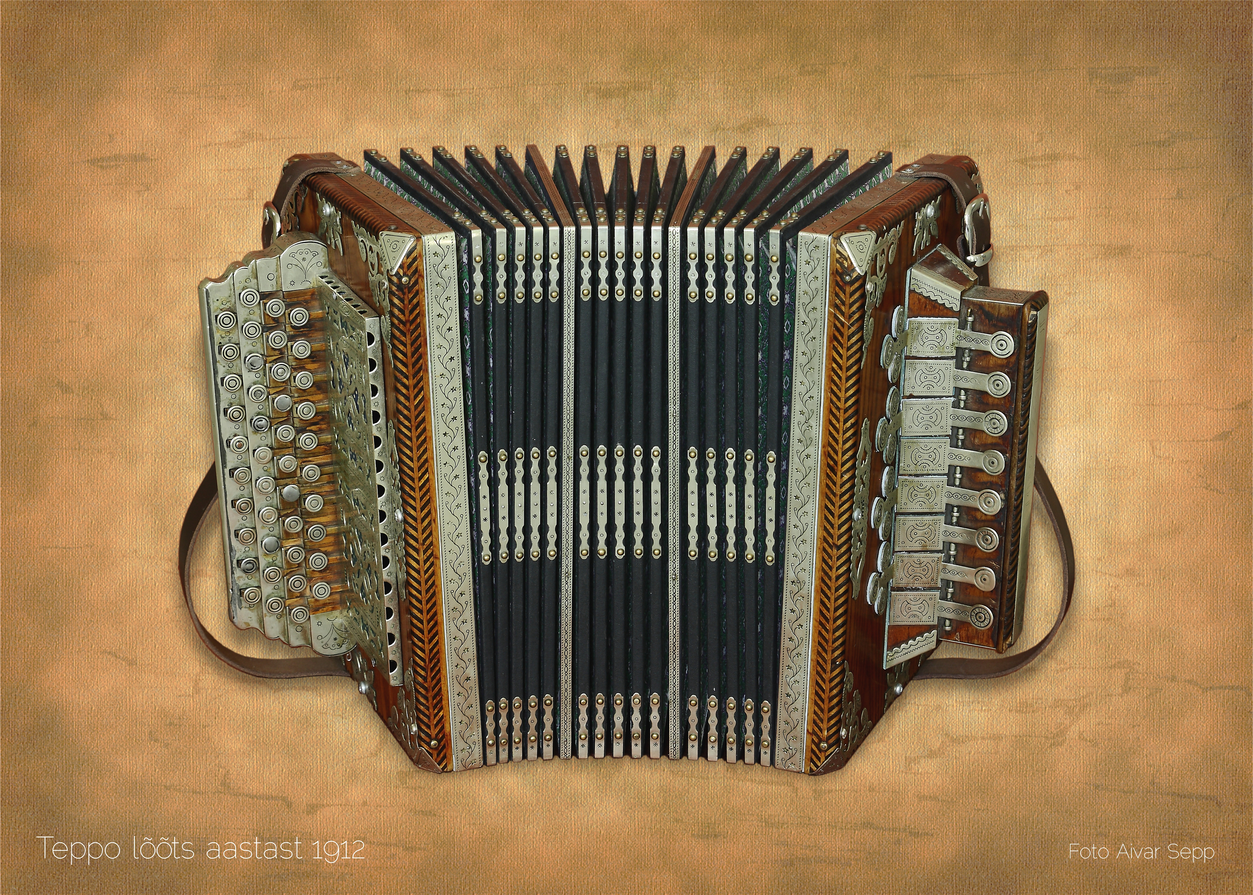 Diatonic button accordion (concertina) made in 1912 by August Teppo (Estonia).